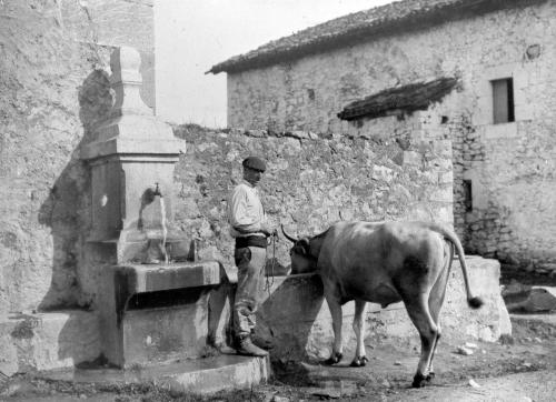 Abreuvoir in the Basque Country